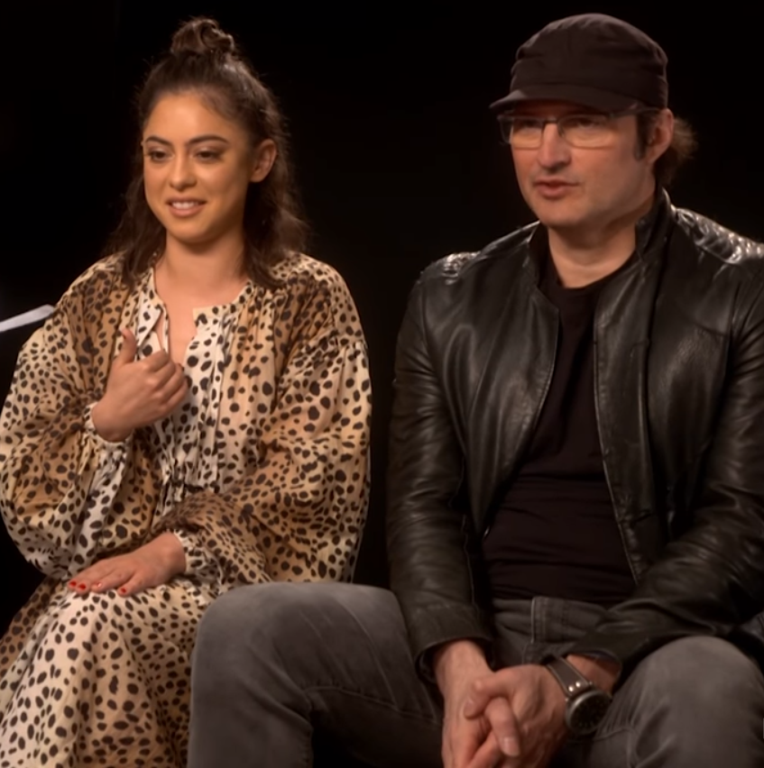 Rosa Salazar and the cast of sci-fi epic Alita: Battle Angel play a hilarious game of SNOG, MARRY, AVOID: CYBORG EDITION, and give us all their behind the scenes goss on the unique way they filmed the blockbuster.